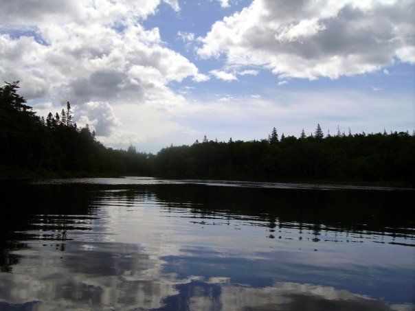 This is a picture of Lake Charlotte, located in the community of Upper Lakeville, Nova Scotia.